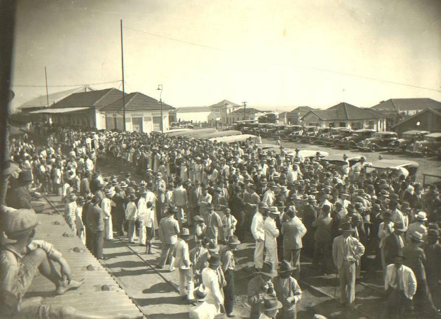 People waiting for the first Paulista´s Company train in Marília in the year of 1928.